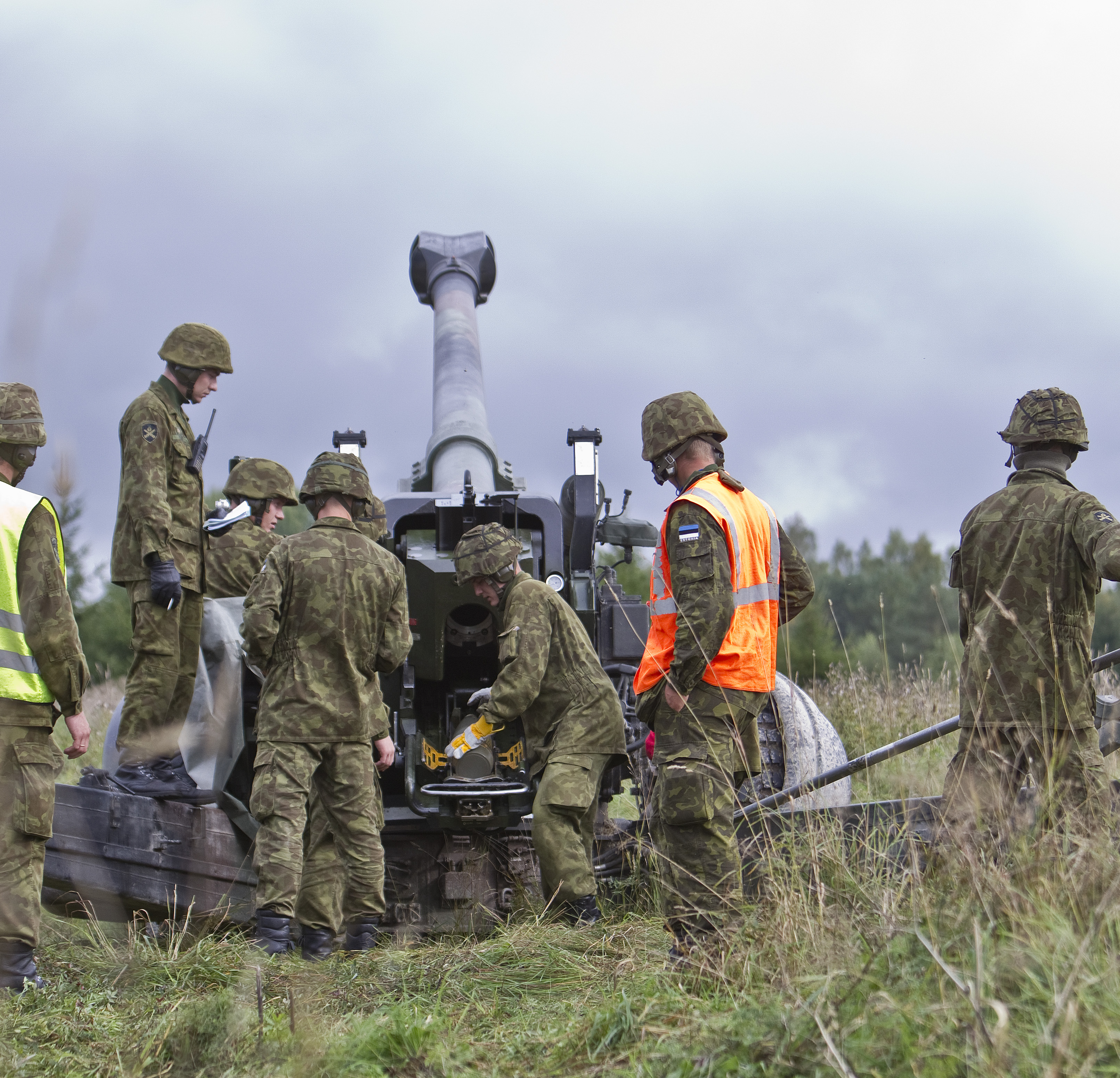 Estonian Defence Forces' reserve units at an exercise